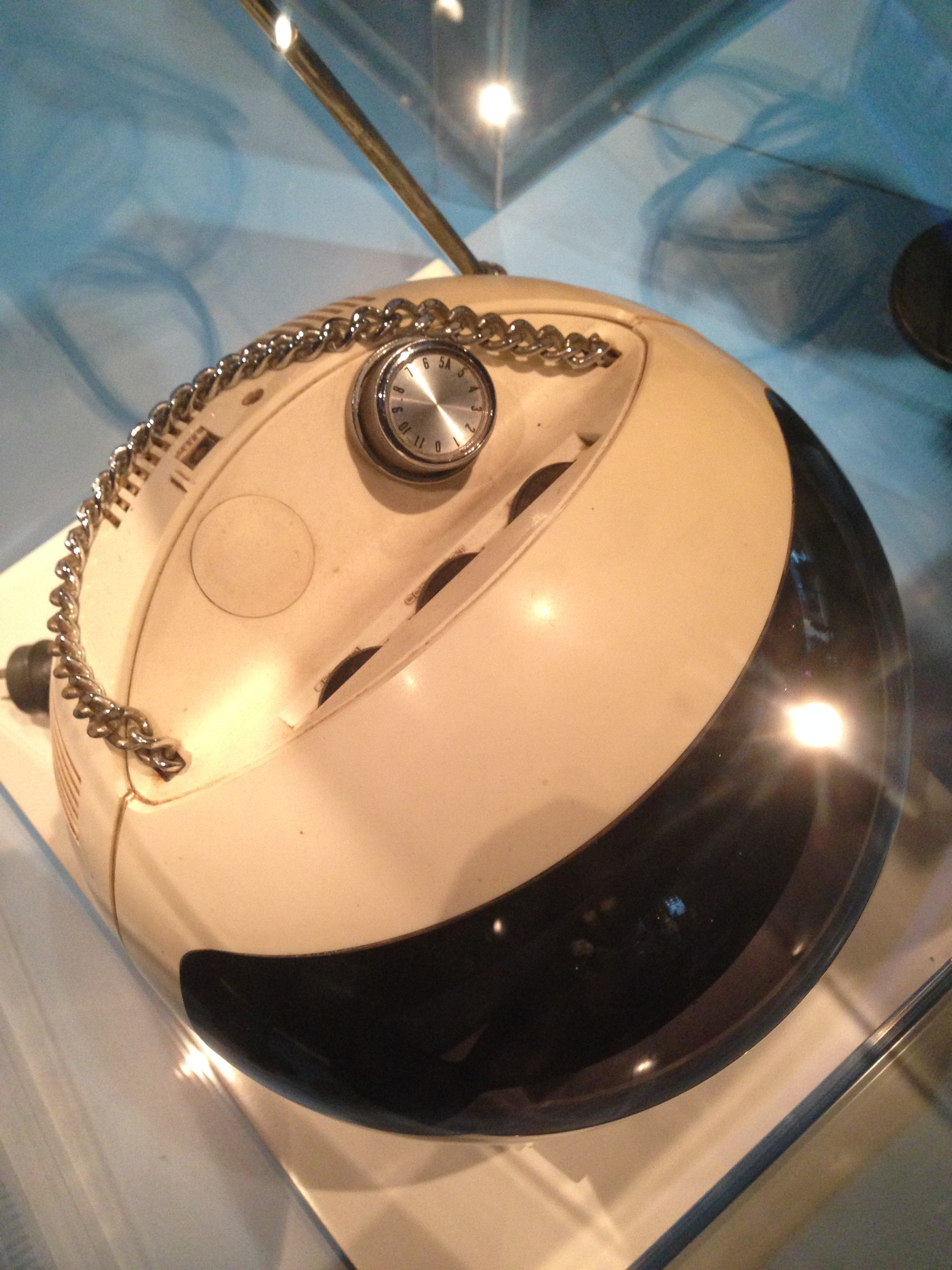 The top of a JVC Videosphere round television, showing the chain handle and channel dial. From the "Screen Worlds" exhibition at the Australian Centre for the Moving Image.